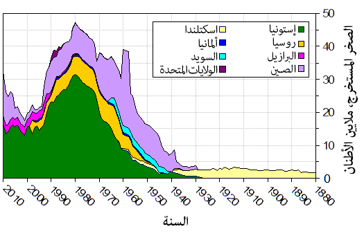 Production of oil shale in millions of metric tons from 1880 to 2010